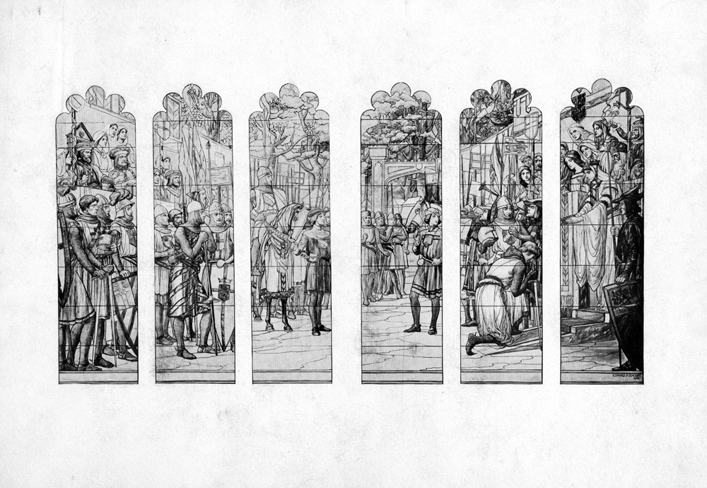 This drawing by Edward P. Sperry was utilized while creating the Frank Dickinson Bartlett Memorial Stained-Glass Window for Bartlett Gymnasium on the campus of the University of Chicago